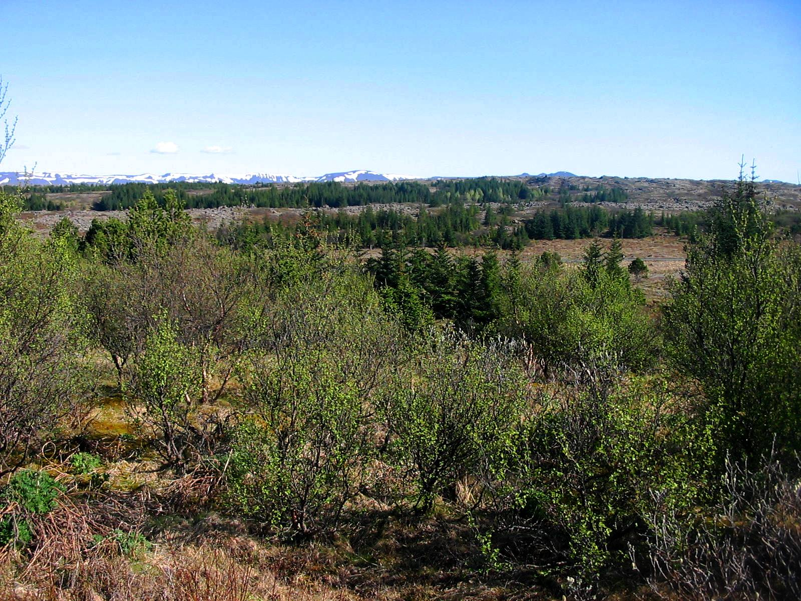 View over Heiðmörk natural reserve, Reykjavik, Iceland